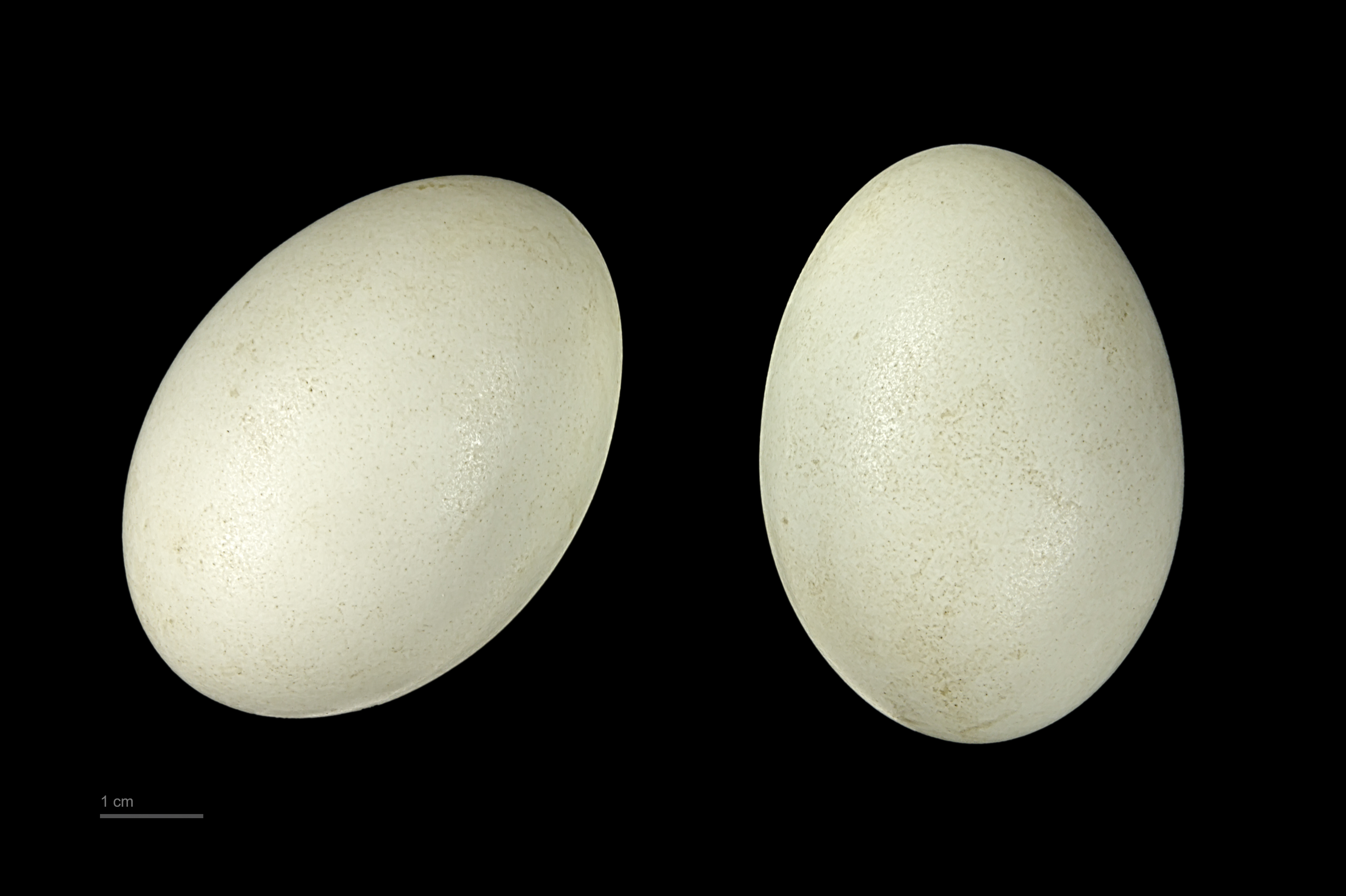 Eggs of mallard Two specimens of the same spawn ; collection of Jacques Perrin de Brichambaut.